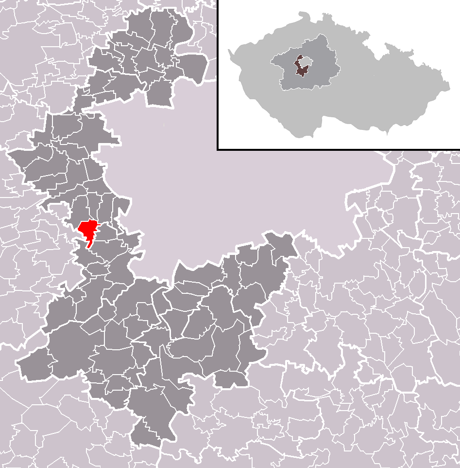 Location of Chýnice municipality within Prague-West District and administrative area of Černošice as a Municipality with Extended Competence.